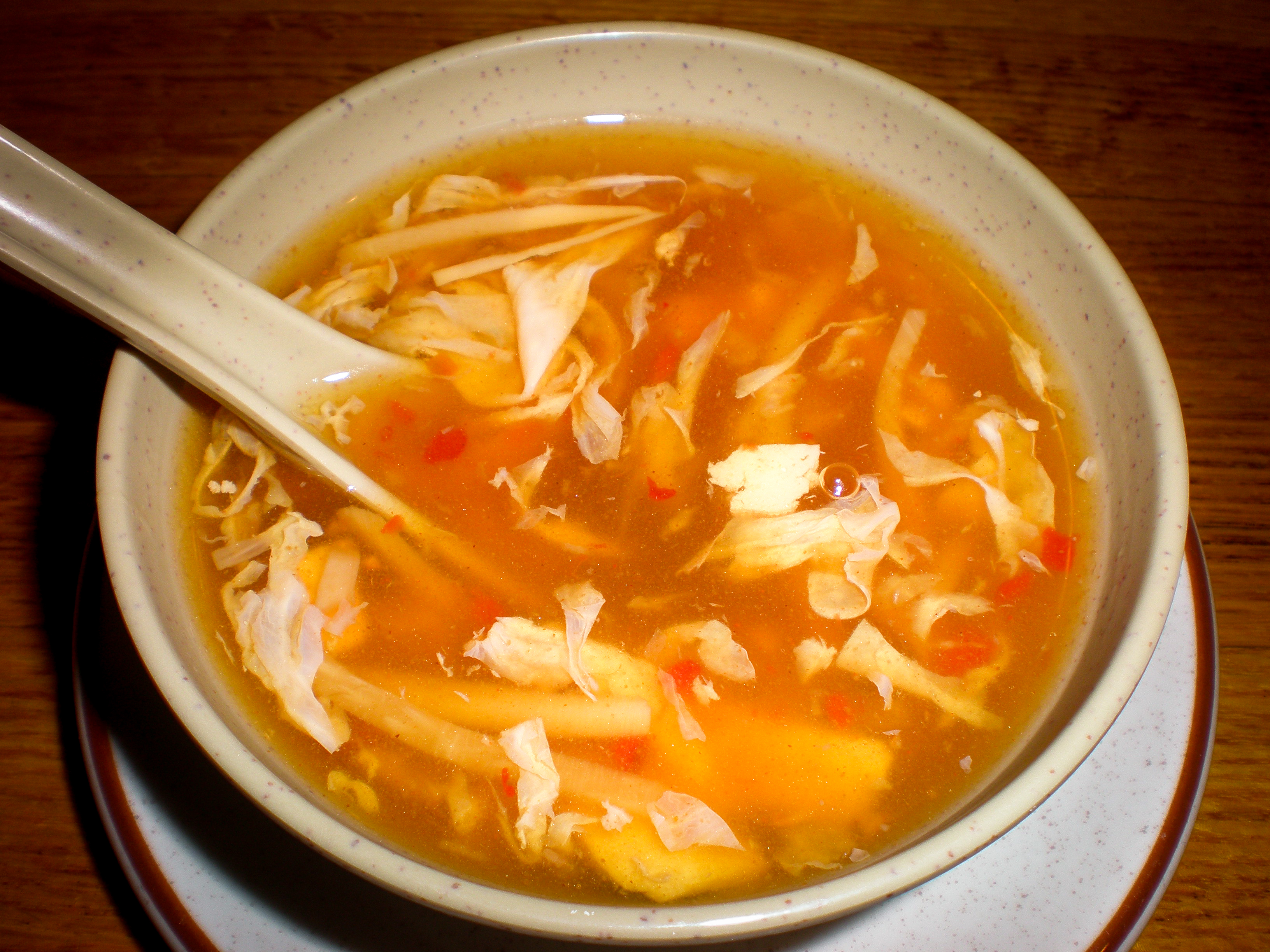 Hot and sour soup from Ping in San Jose, California.